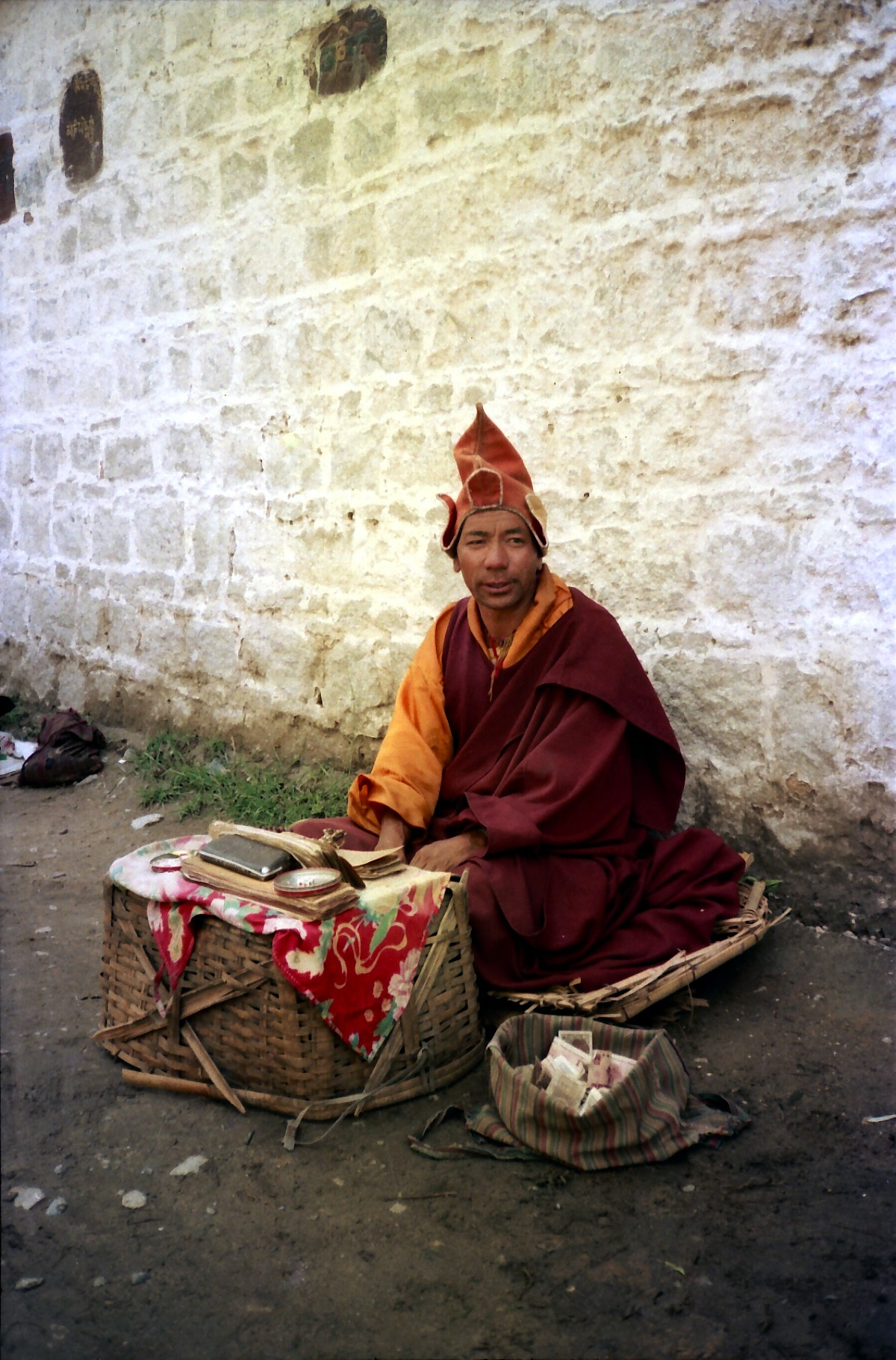 Mendicant monk at base of Potala, Lhasa